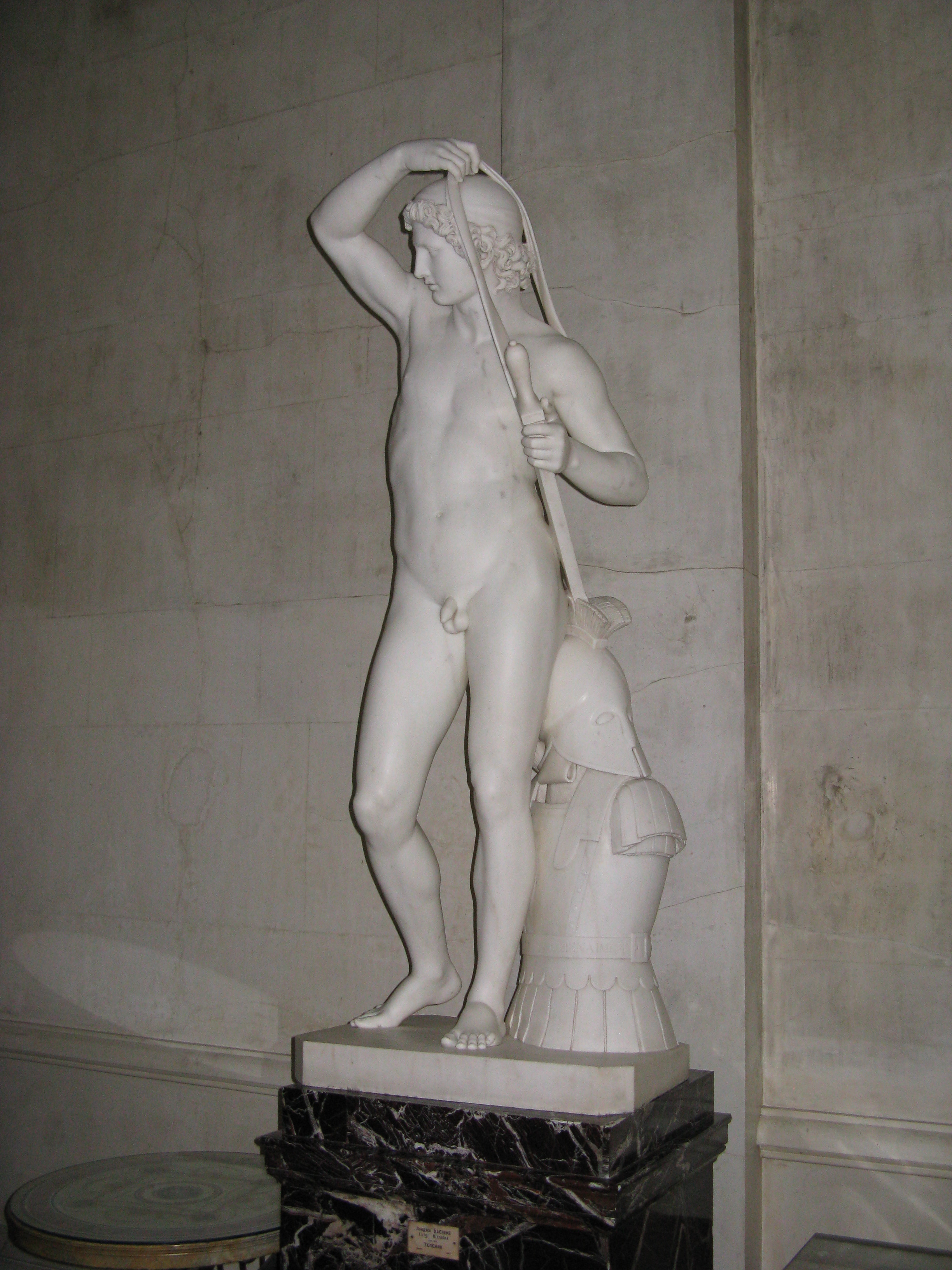 Telemaco [aka Telemachus Arming] (1835), work of sculptor Luigi Bienaimé (1795-1878) at the Hermitage.